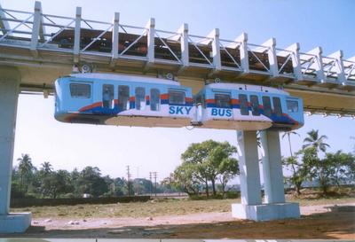 New Improved rapid transit railway Skybus- safer and economic. Inventor Mr. B. Rajaram tested the system at Goa -here is one picture. More details are at